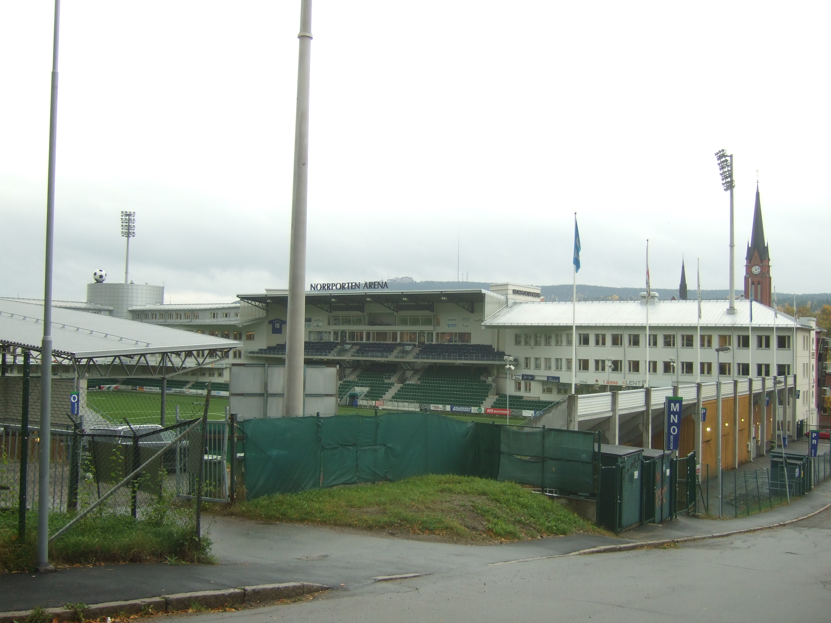 The football venue of "Norrporten Arena" at Universitetsallén 2-8 in Sundsvall, south bleachers and west spectator entrance viewed from north